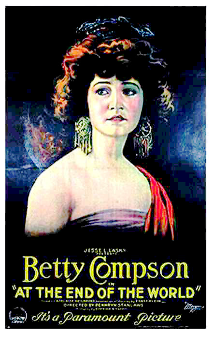 Poster for the 1921 film At the End of the World with Betty Compson.